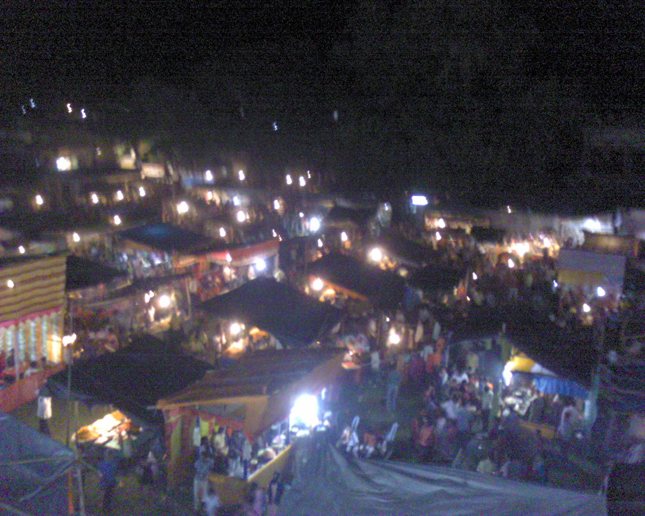 Picture taken from a high-altitude ride at rathyatra, ranaghat